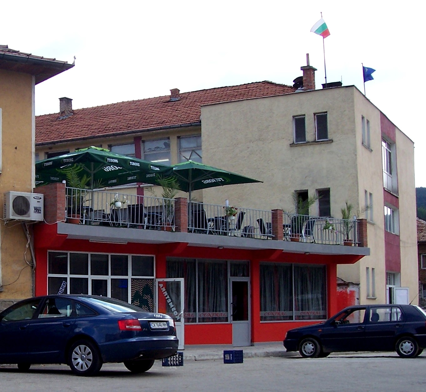 The village hall in the village of Kochan along cafe Central and hair style studio Emi.